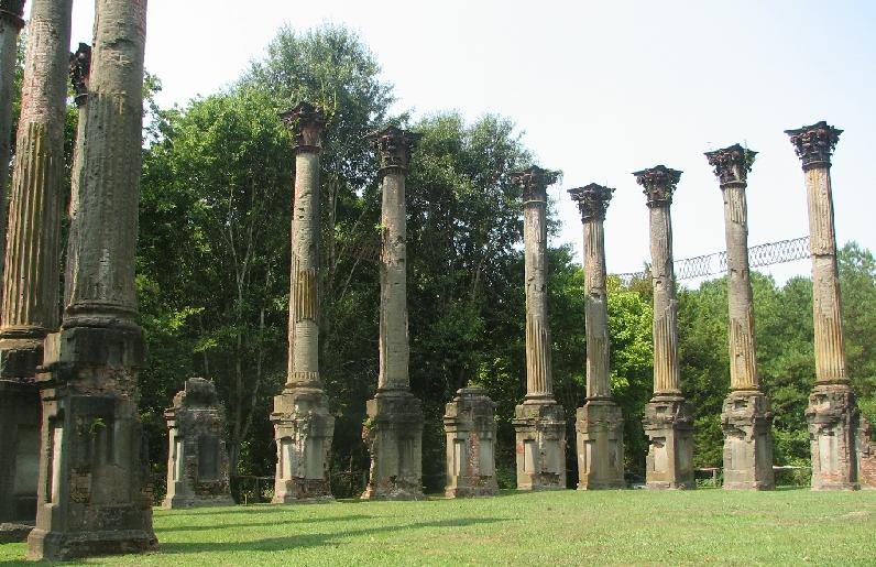 Ruins of Windsor (Mississippi)